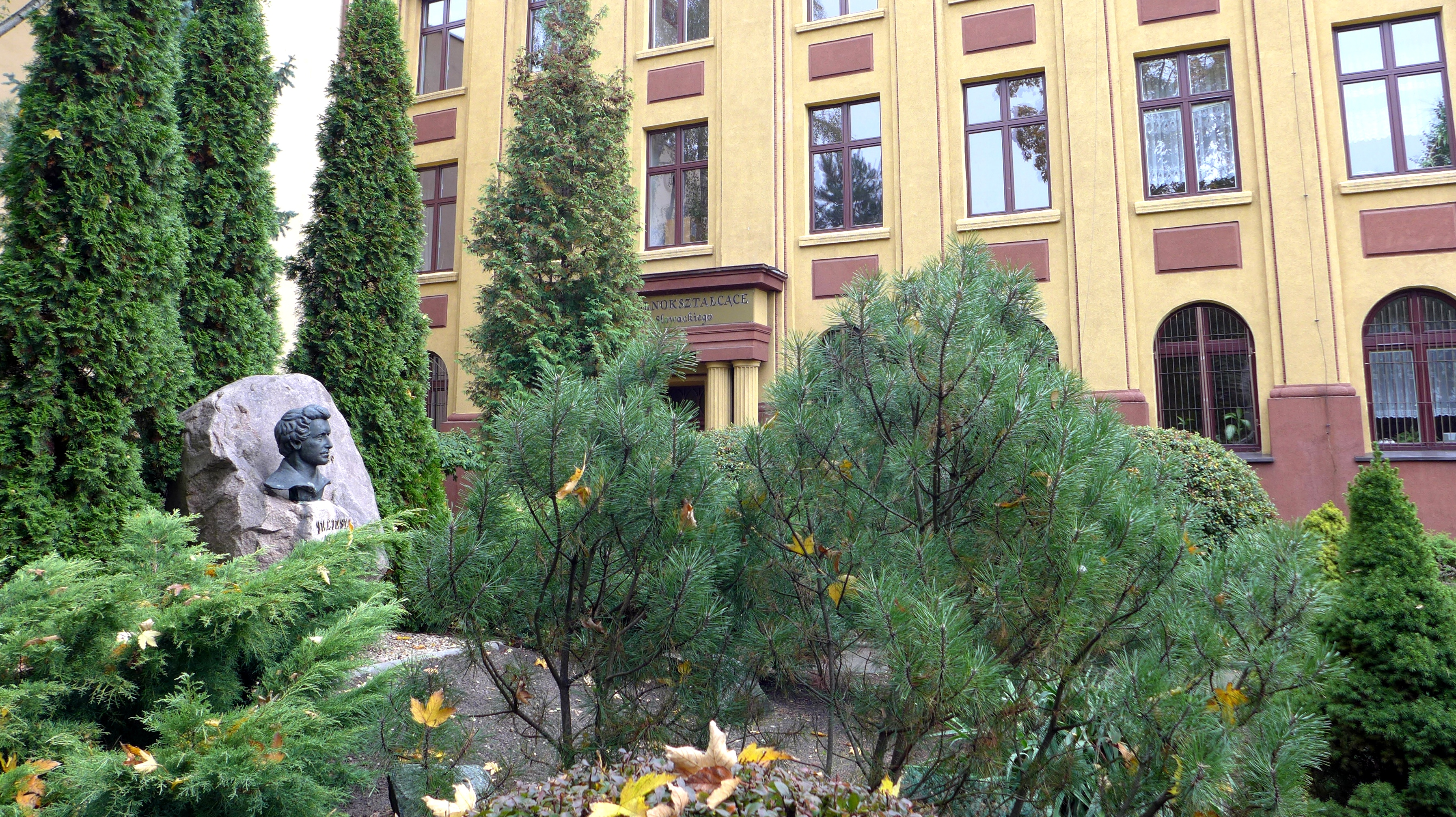 Juliusz Slowacki Secondary School in Czestochowa, Poland